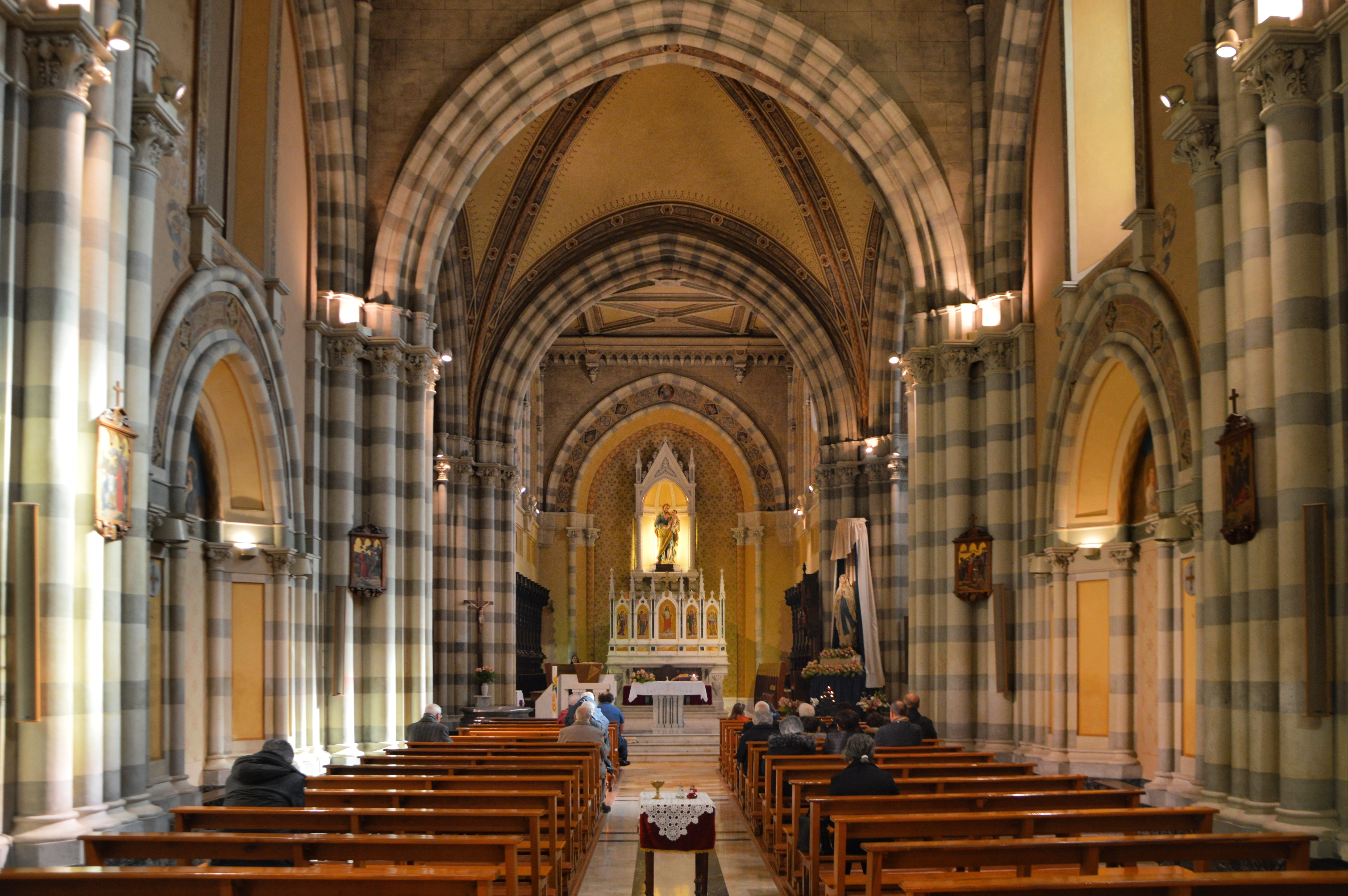 Interno